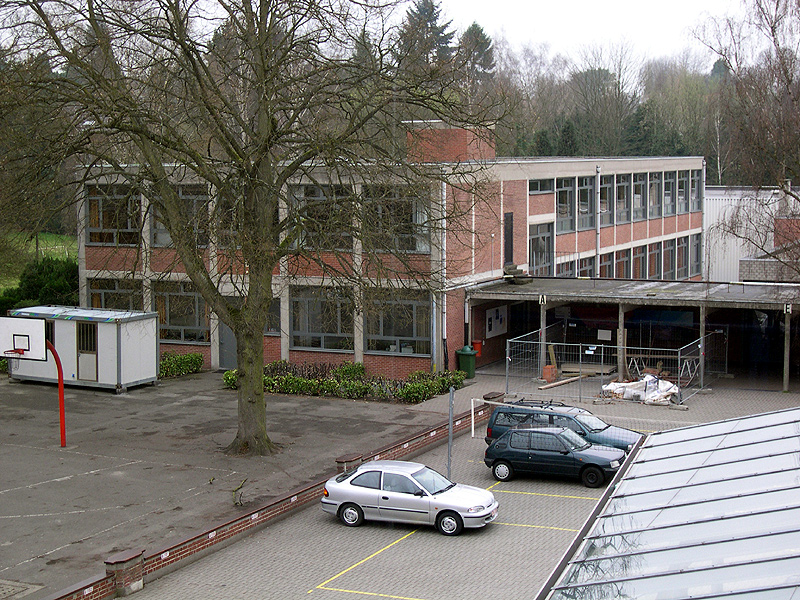 H.-Hartcollege Tervuren, building A